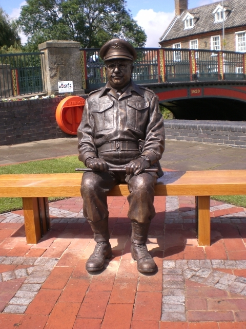 Statue of Arthur Lowe as his Dad's Army character Captain Mainwaring. This statue was unveiled in Thetford, Norfolk, on 19th June 2010.